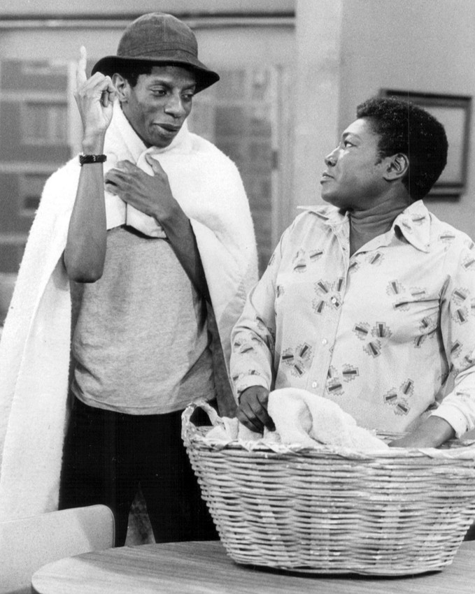 Publicity photo from Good Times. Pictured are Jimmie Walker (J.J.) and Esther Rolle (Florida).